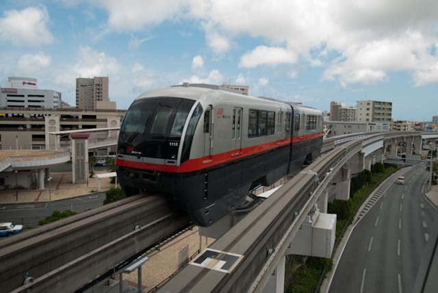 Okinawa Monorail 1000 series, number 1113+1213.